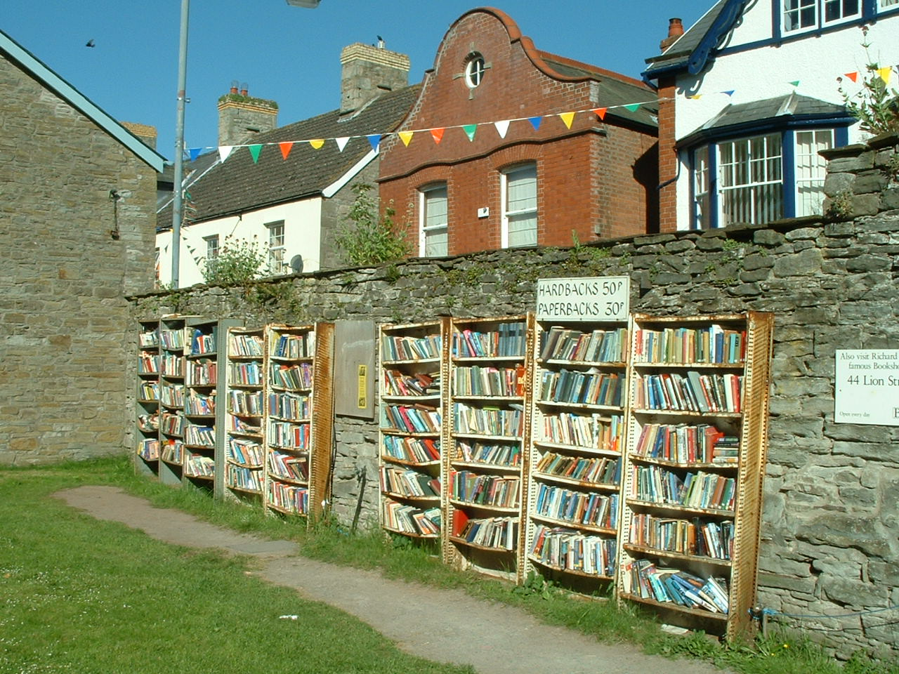 Booksale in Hay-on-Wye